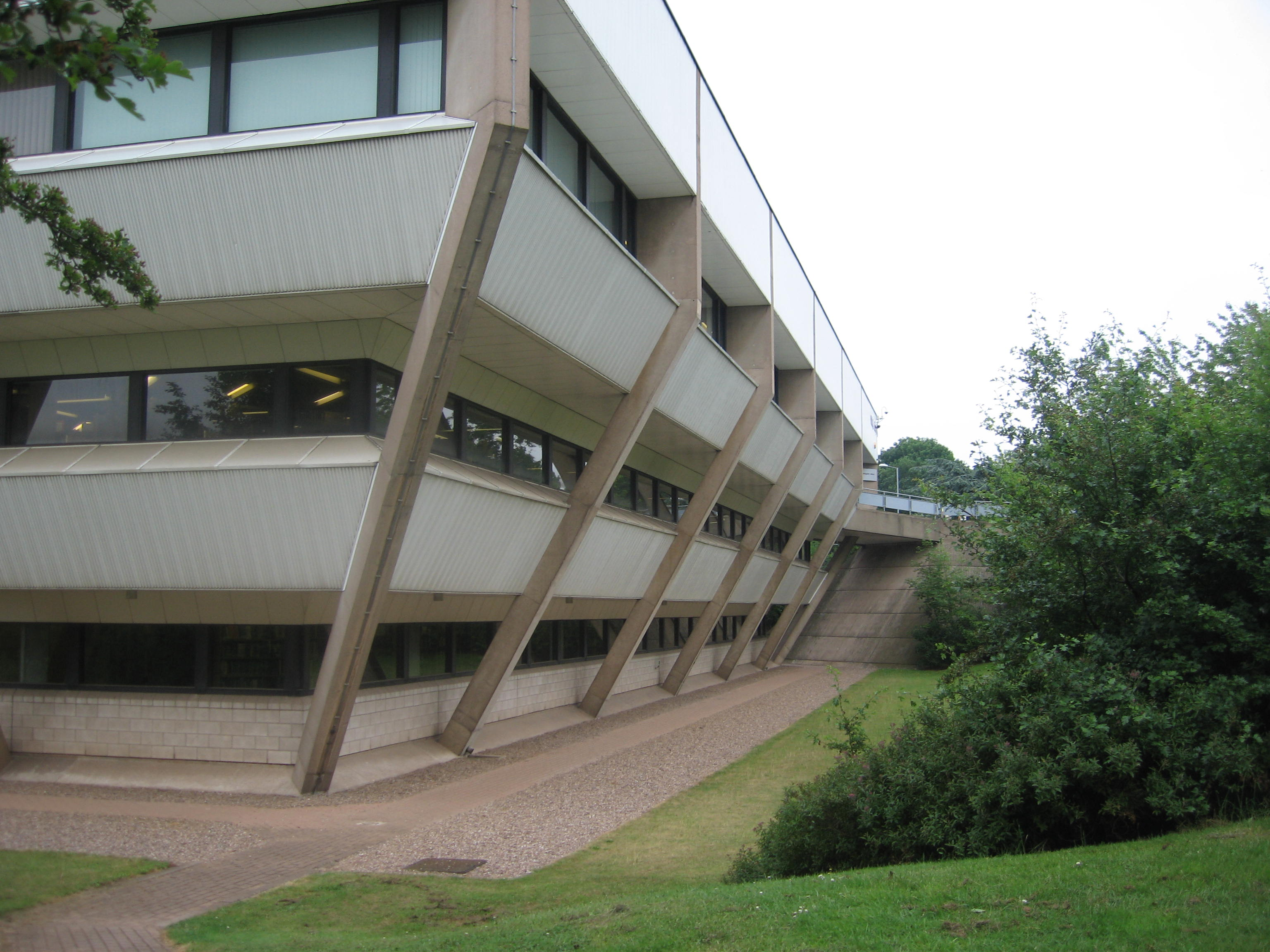 Pilkington Library building at Loughborough University, showing levels 1-3 and the link bridge entrance to the building.